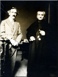 English poet Émile Ripert (on the left) & French poet and a prist-monk Louis Le Cardonnel (1862–1936; on the right).